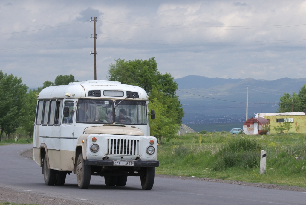 Armenian bus